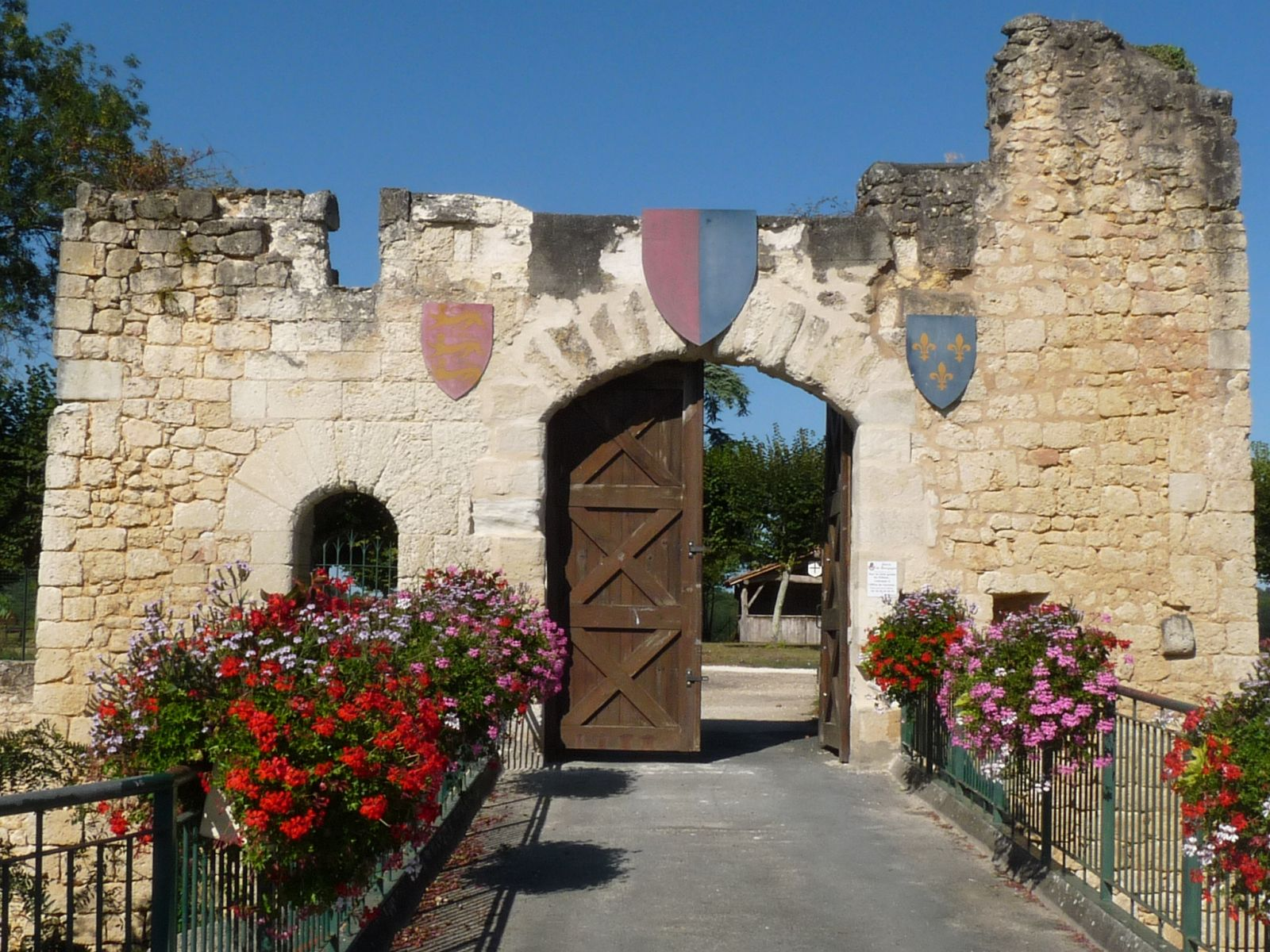 entrance of the castle of Montguyon, Charente-Maritime, SW France; english (red) and french (blue) flags